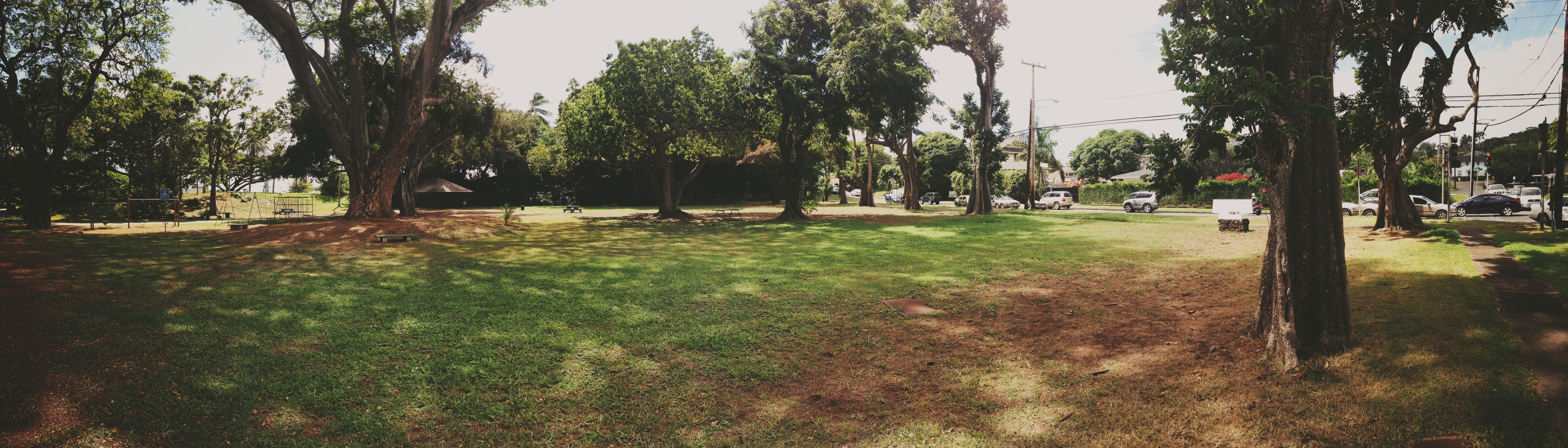 Kamanele Park, a taste of the ugly and beautiful sides of Manoa (10633841655).